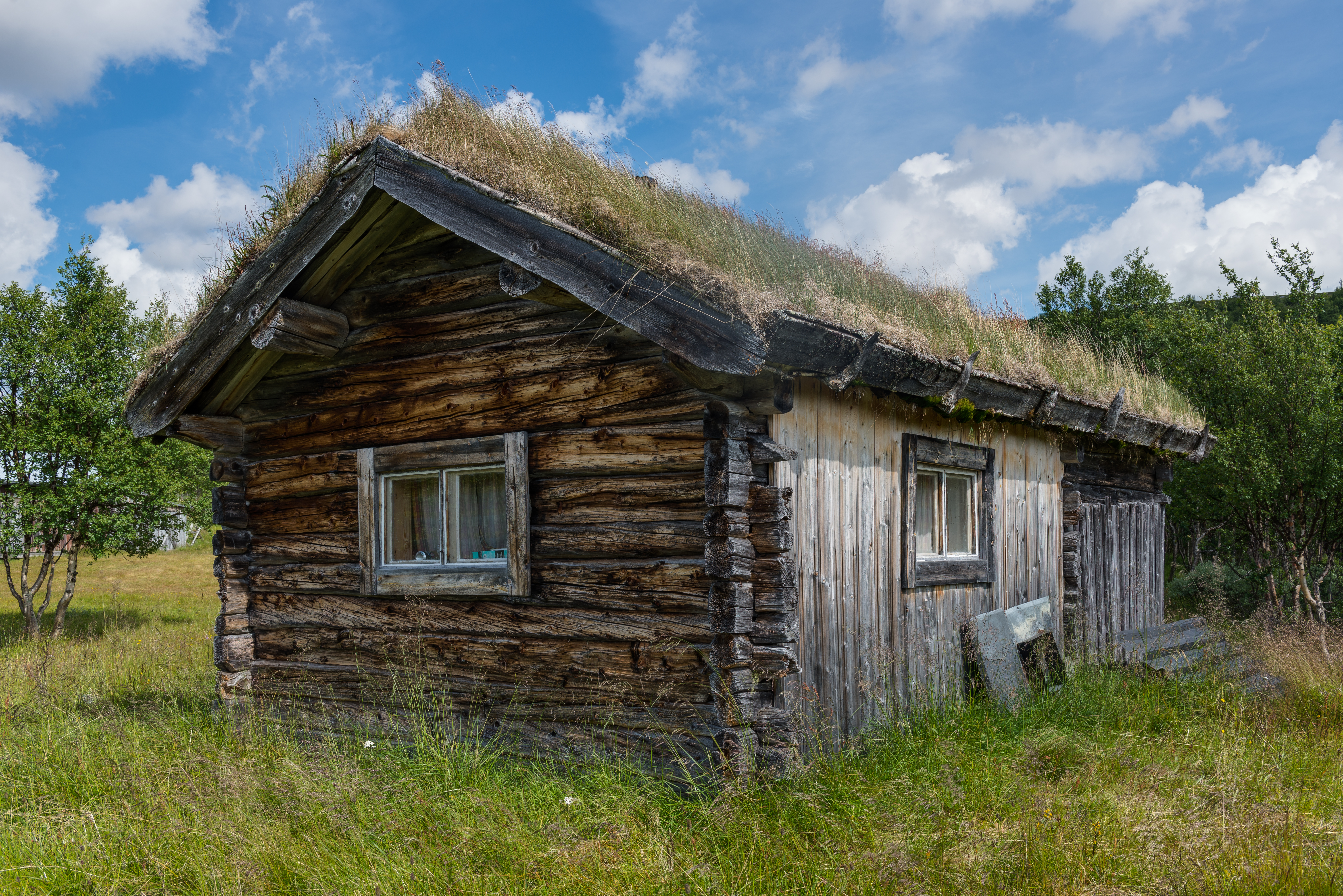 Building in Ljungris, Ljungdalen, Berg Municipality, Jämtland County. Ljungris is owned by the Sámi community and used especially for Reindeer calf marking in the summer.